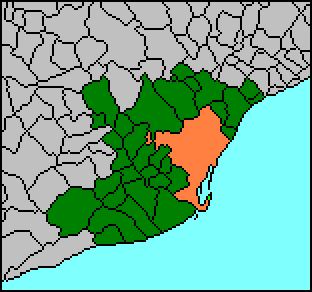 Entity of the Environment (Barcelona metropolitan area)